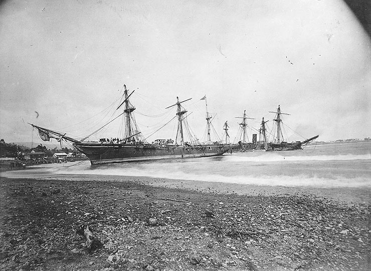 Scene in Apia Harbor, Upolu, Samoa, soon after the storm. The view looks about southwestward, with USS Nipsic beached in the foreground. Beyond her stern is USS Trenton (in the right center) and the sunken USS Vandalia (in the center, alongside Trenton). Original caption: "Photo # NH 2151 Wrecked ships at Apia, Samoa, after March 1889 hurricane. Looking southwards"